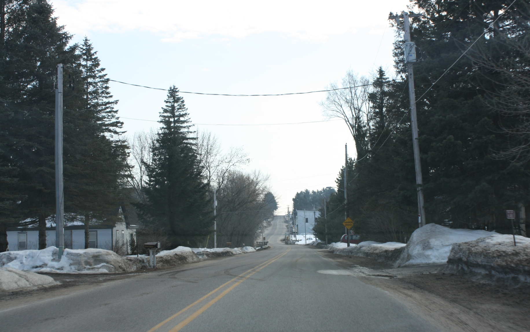 Looking south at downtown Pine River (community), Wisconsin.